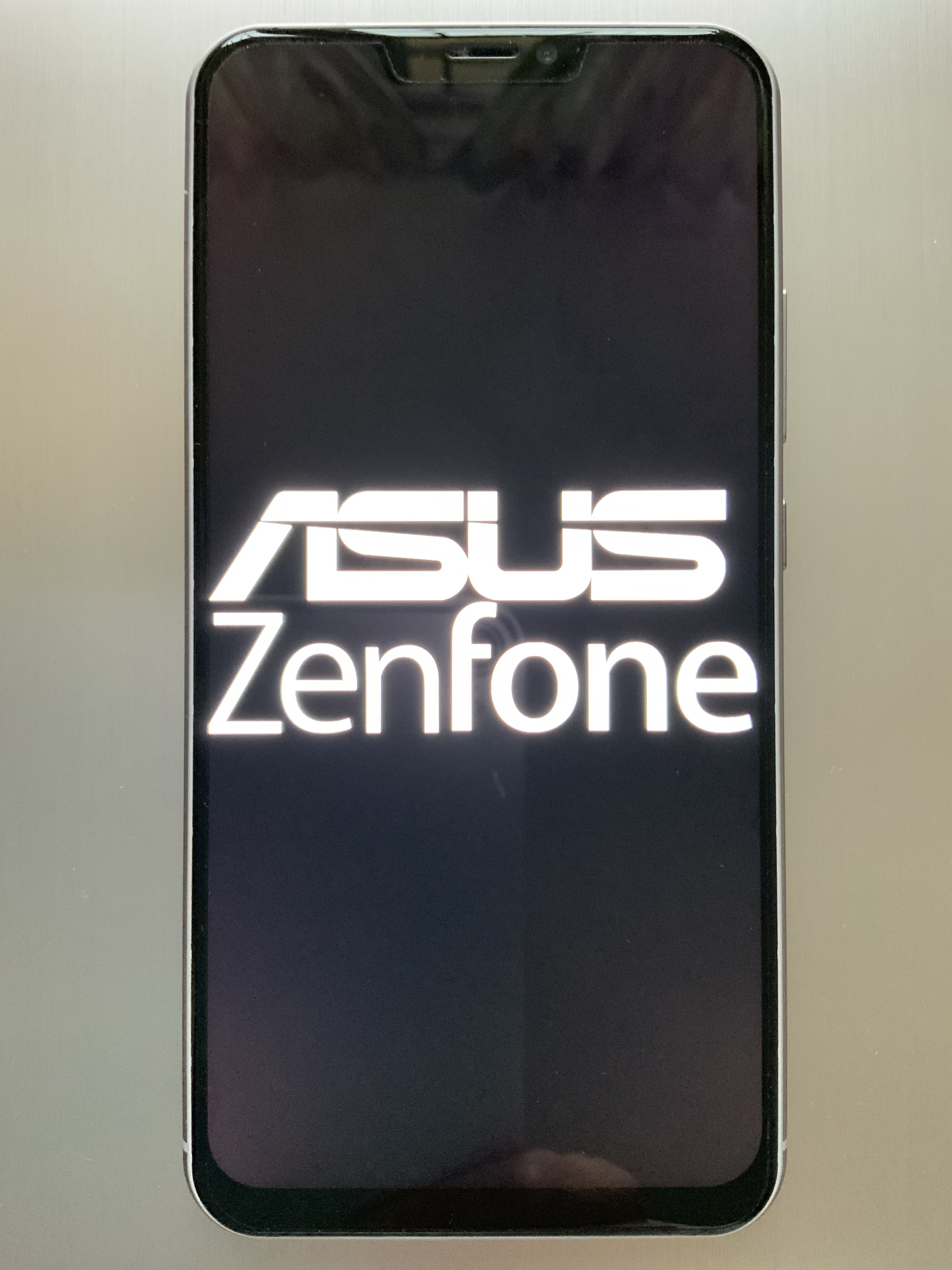 ASUS ZenFone 5 (ZE620KL) face